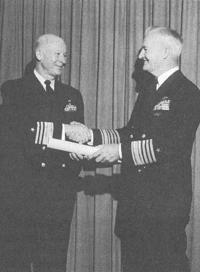 Original caption: "Chief of Naval Material Admiral I. J. Galantin (right) presents a third star to Vice Admiral J. D. Arnold, upon his recent promotion. Arnold will continue as Vice Chief of Naval Material. The Naval Material Command provides material support for the Navy's operating forces."